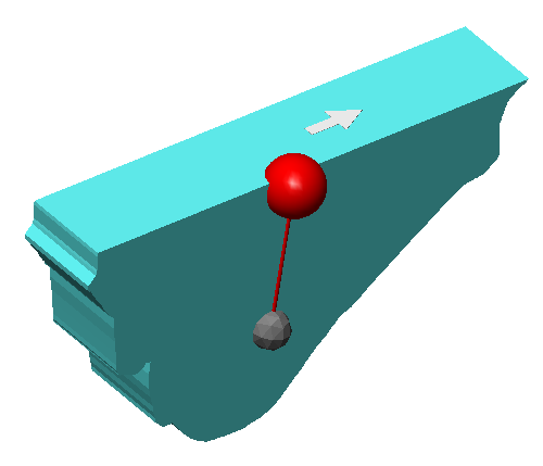 Floater type flowmeter